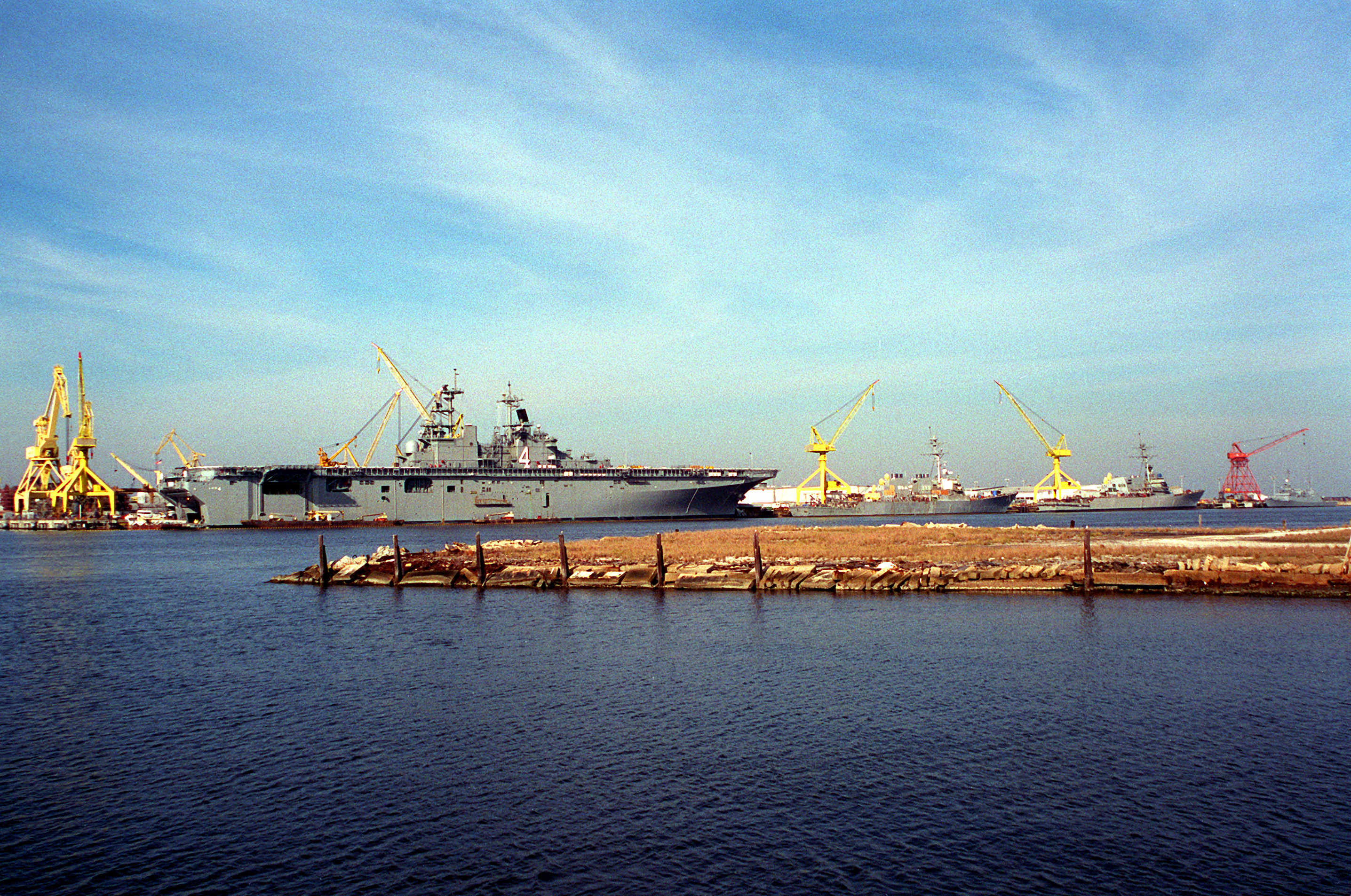 A view of a section of the Ingalls Shipbuilding Company showing various United States Navy ships under construction; (left to right) the amphibious assault ship USS Boxer (LHD-4), the guided missile destroyer USS Ramage (DDG-61) and USS Benfold (DDG-65)) and the Israeli guided missile corvette Hanit (503). Location: Pascagoula, Mississippi, United States